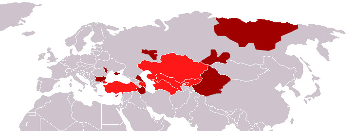 The influence zones of Pan-Turkism, core area in light red, others in dark red.